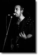 Frankie Stubbs playing live with Leatherface